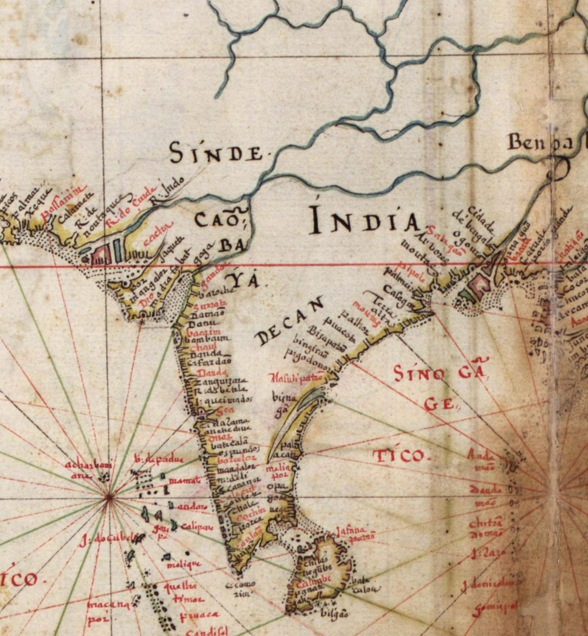 Detail of India, from a 1630 Portuguese map of Asia, entitled Taboas geraes de toda a navegação, divididas e emendadas por Dom Ieronimo de Attayde com todos os portos principaes das conquistas de Portugal delineadas por Ioão Teixeira cosmographo de Sua Magestade, anno de 1630 (General tables of all the navigation, divided and corrected by D. Jeronimo de Ataide, with all the ports and conquests of Portugal delineated by Joao Teixeira, cosmographer of His Majesty, Year 1630""